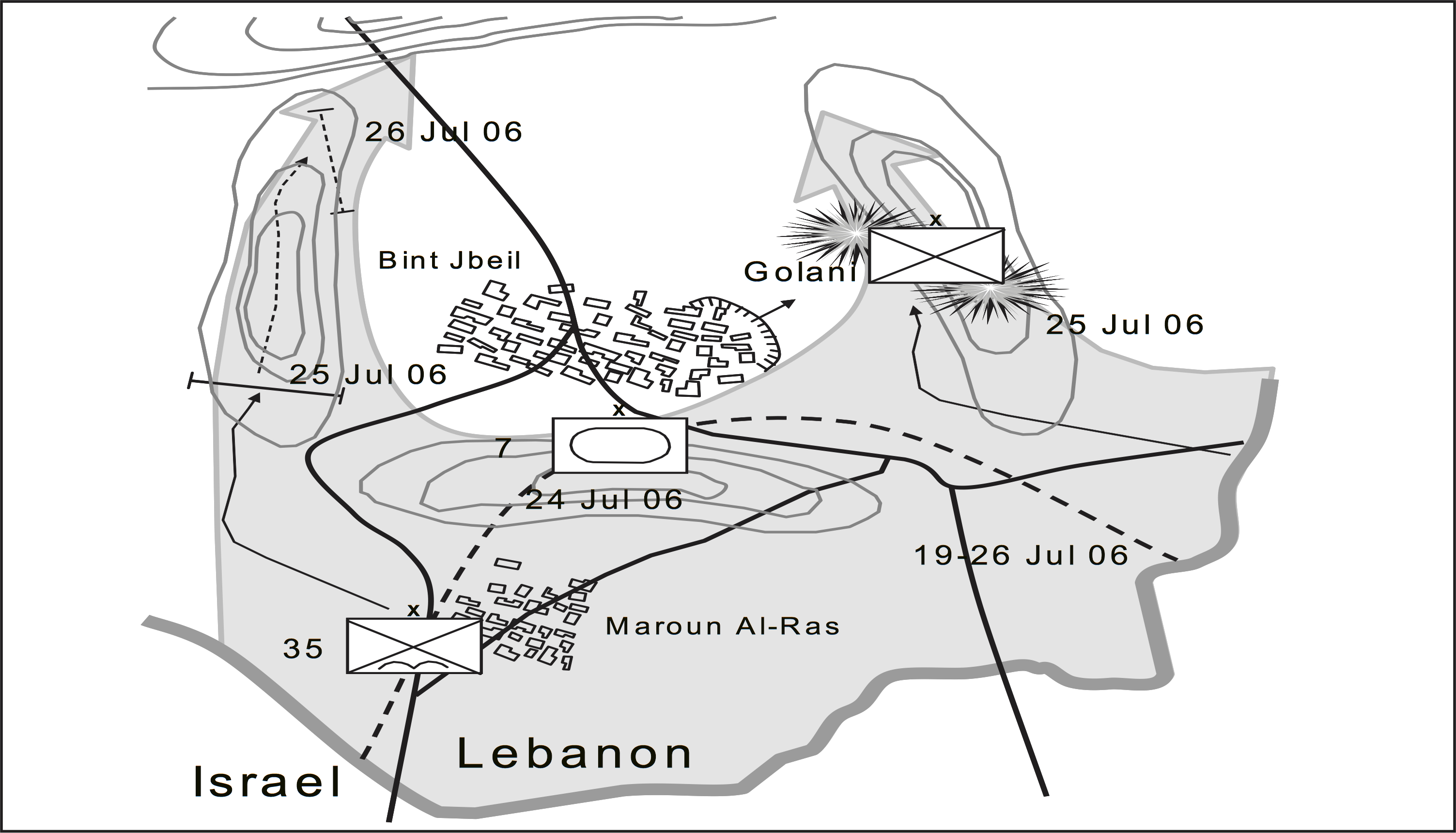 A map of the Battle of Bint Jbeil in the 2006 Lebanon War.